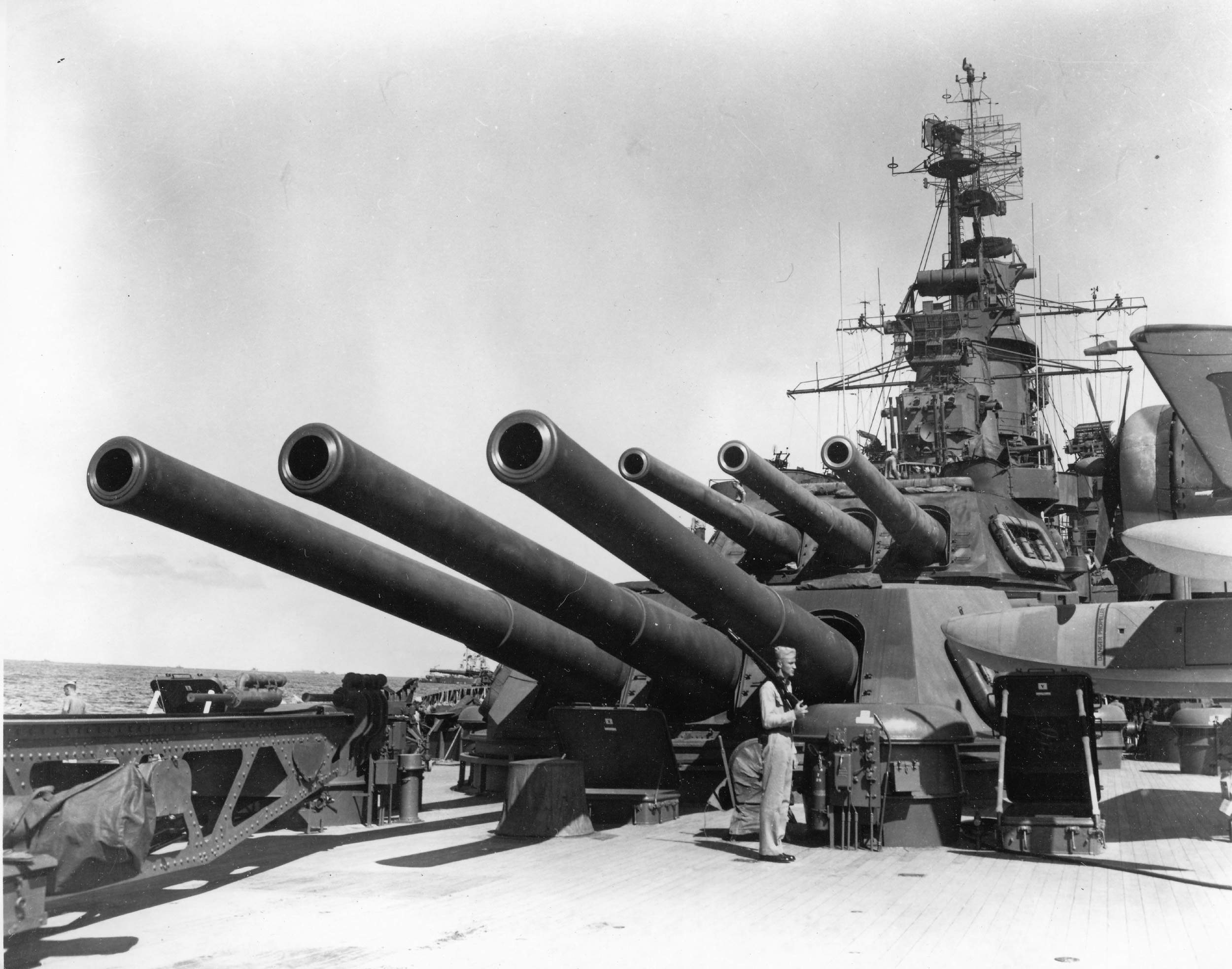 The after triple 50-caliber gun turrets of the United States Navy battleship